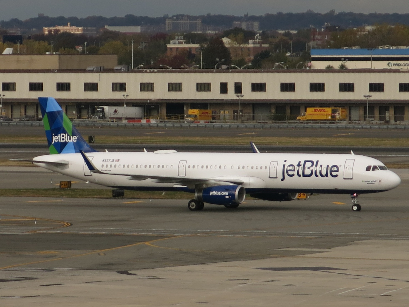 JetBlue Airways Airbus A321 N937JB (named Never a dull mo-mint) taxis to Terminal 5 (to the right of the photographer) at John F. Kennedy International Airport along Taxiway A.